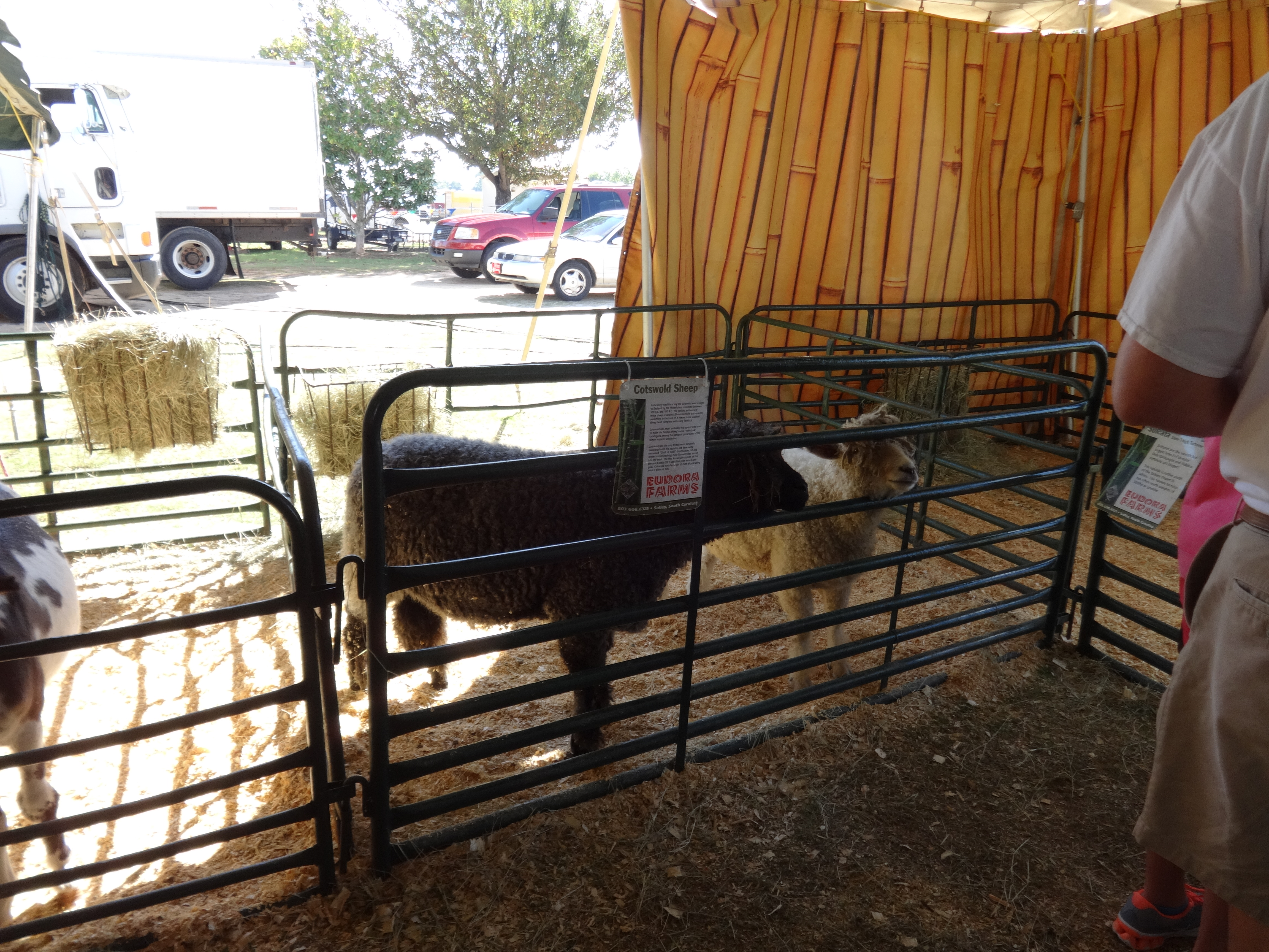 Georgia National Fair 2014, October 4 - Georgia National Fairgrounds & Agricenter, Perry, Houston County, Georgia